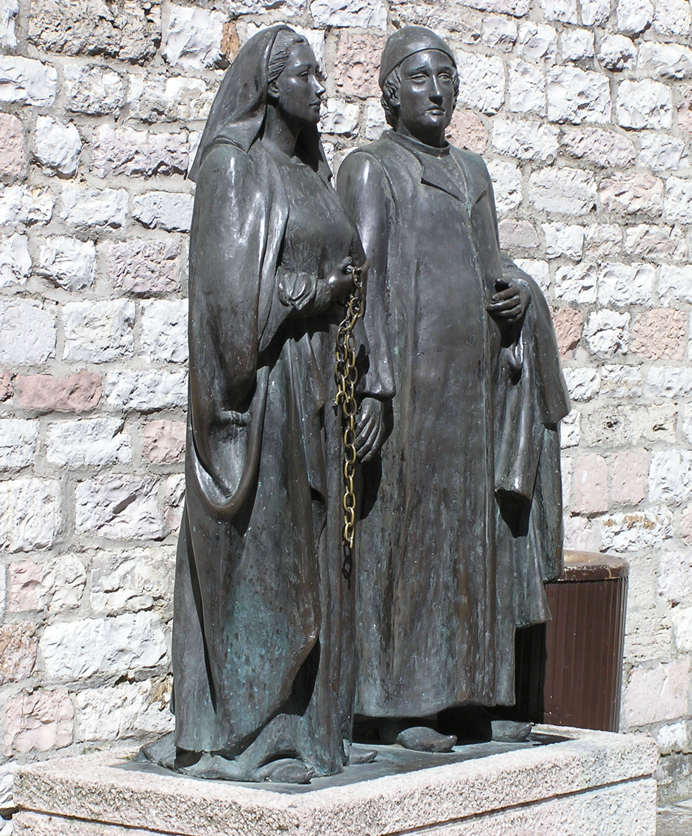 Parents of Saint Francis